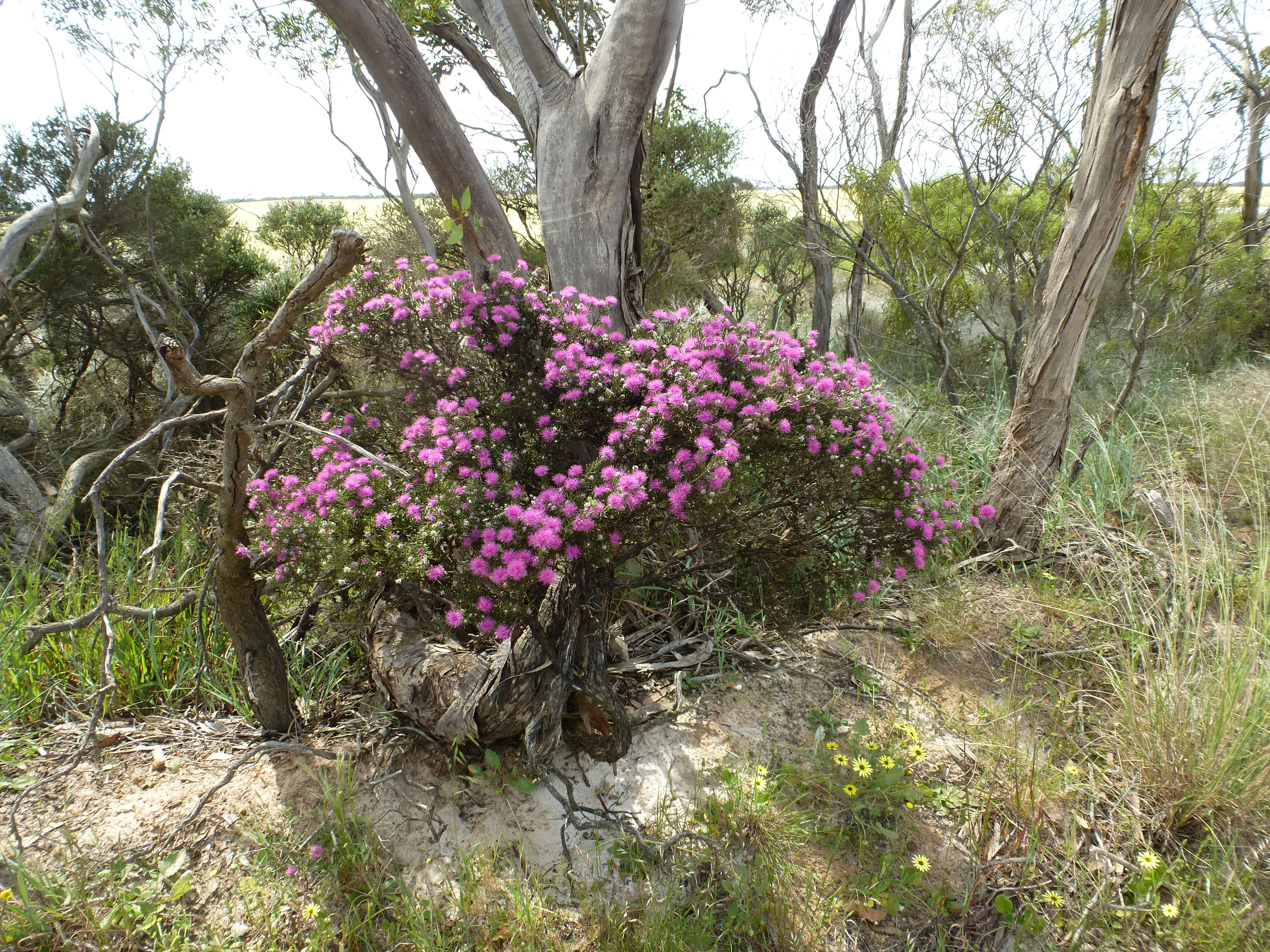 Melaleuca plumea growing along Scaddan Road